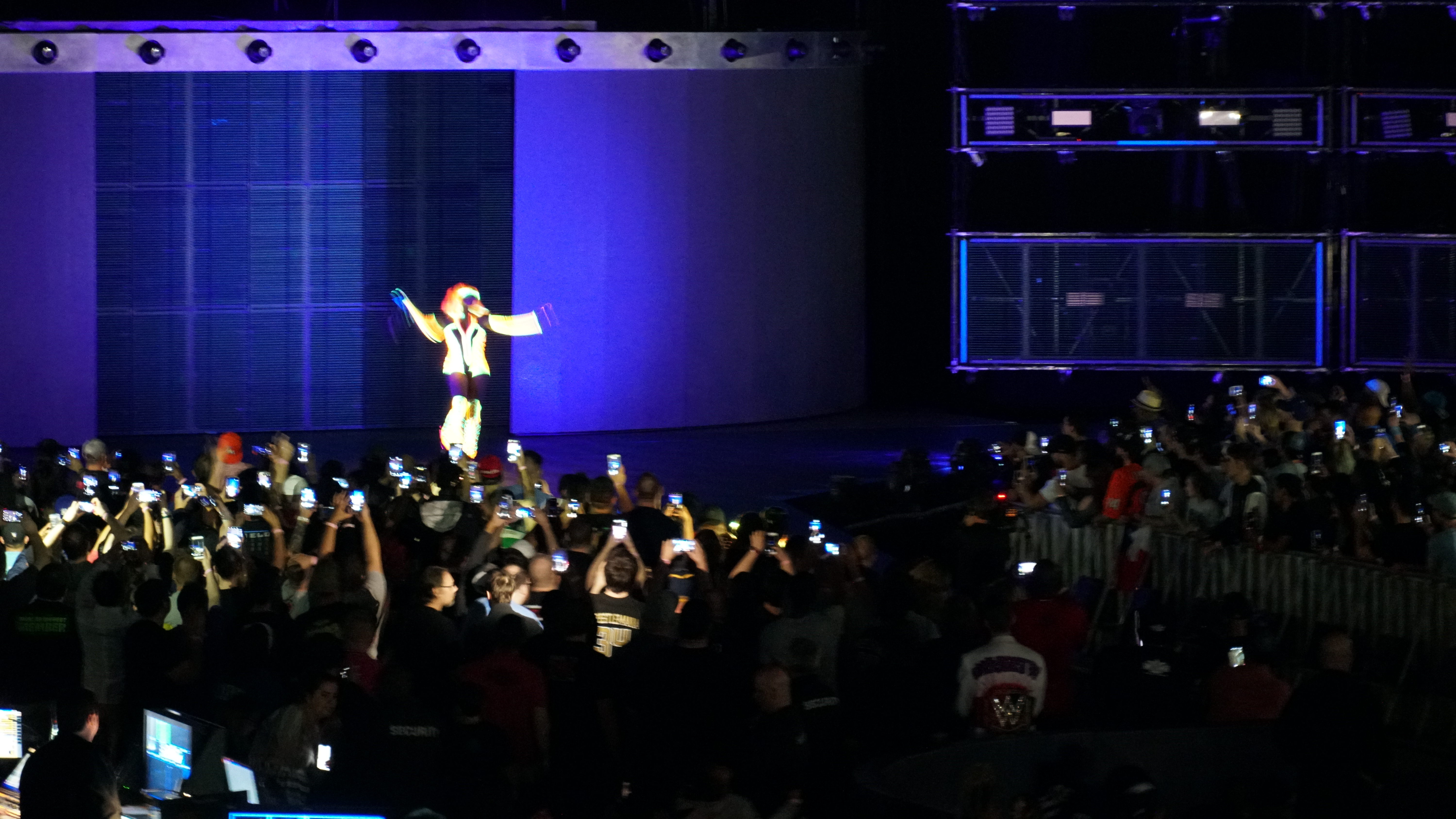 NOLA 2018 - WWE Smackdown Live - Naomi Vs Natalya Naomi def. (pin) Natalya (in 07:30) ( Deux semaines a Nola pour la ville et pour WWE Wrestlemania XXXIV Two weeks Nola for the city and for WWE Wrestlemania XXXIV )